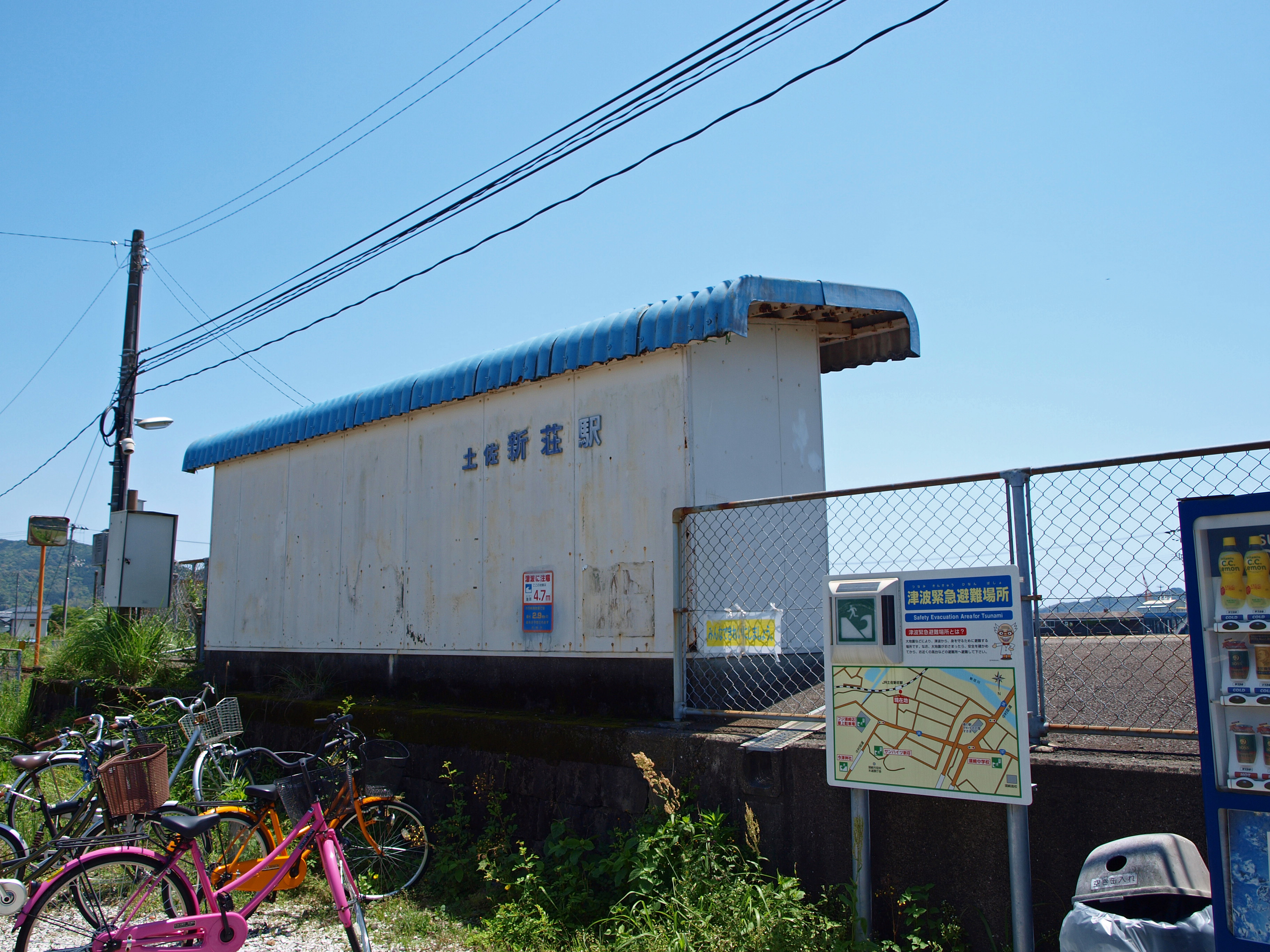 Tosa-Shinjō station, Dosan-line, JR Shikoku, Japan